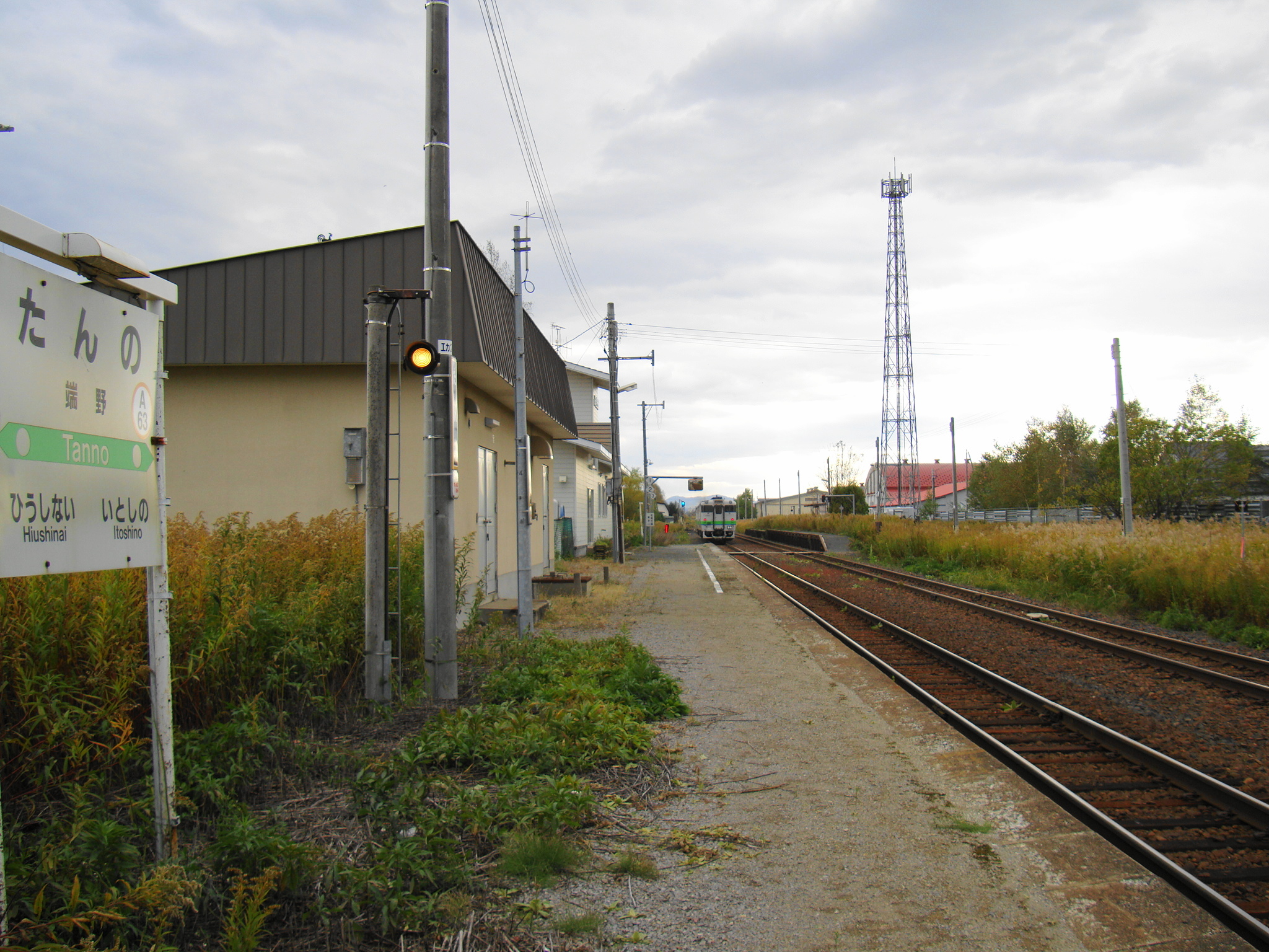 Tanno Station